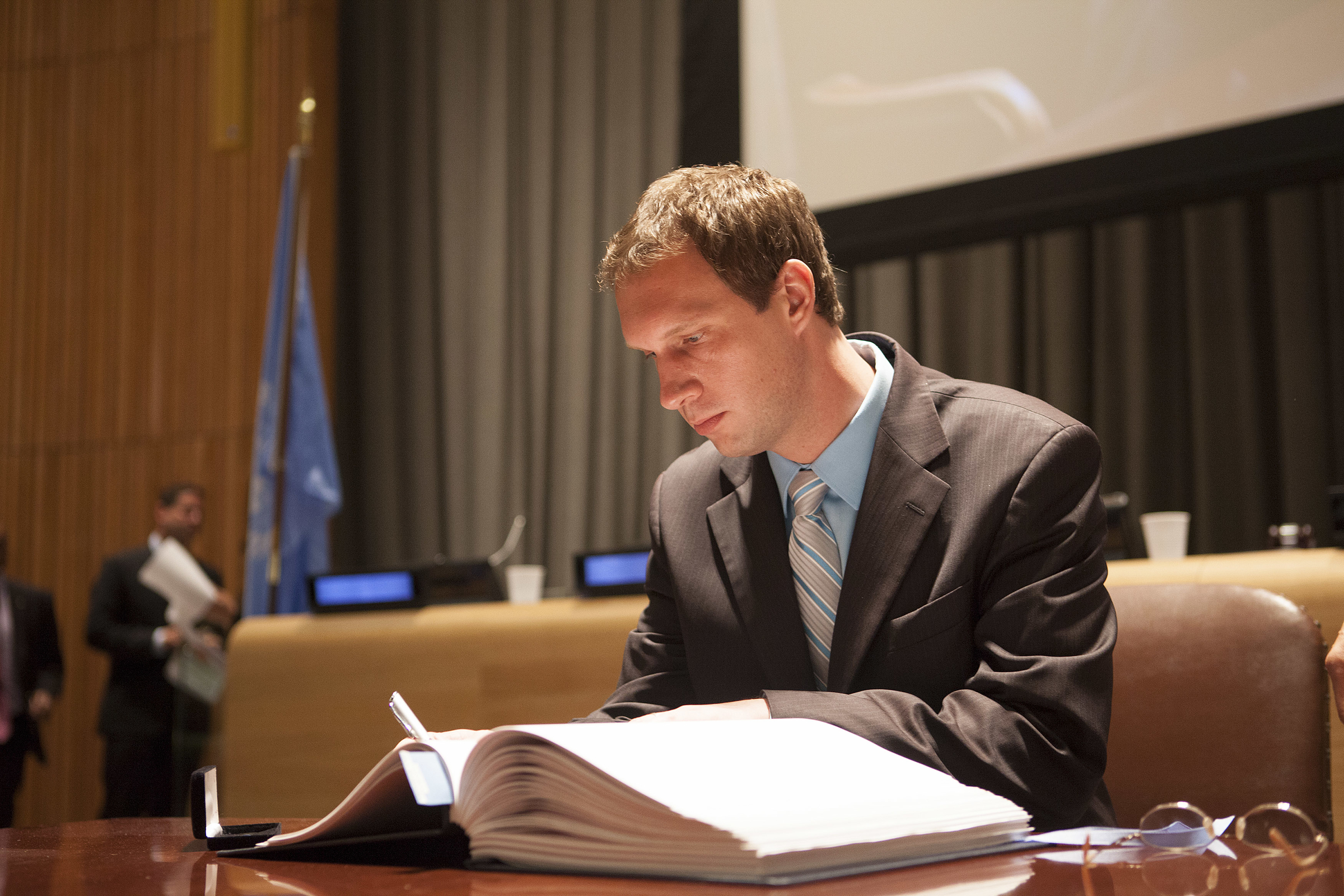 Slovenian representative (Mr. Matej Marn, Deputy Permanent Representative) signing the treaty, as the Foreign Ministers and Ambassadors sign the Arms Trade Treaty At United Nations headquarters in New York, June 3, 2013. INSIDER IMAGES/Keith Bedford (UNITED STATES)